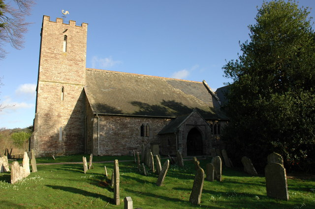 Byford church Byford church is dedicated to St John the Baptist.